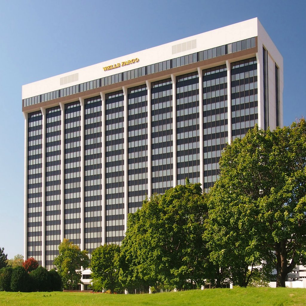 Metropoint Tower, 600 Highway 169 S, St Louis Park, Minnesota, USA. Viewed from the northeast.